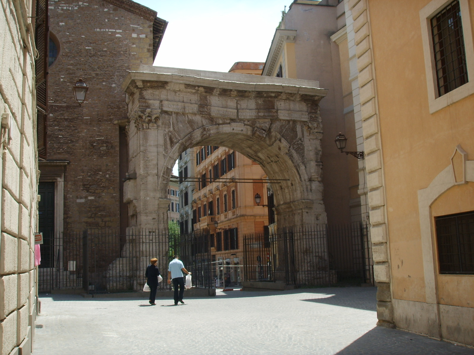 Gallieno arch, in Rome, Italy